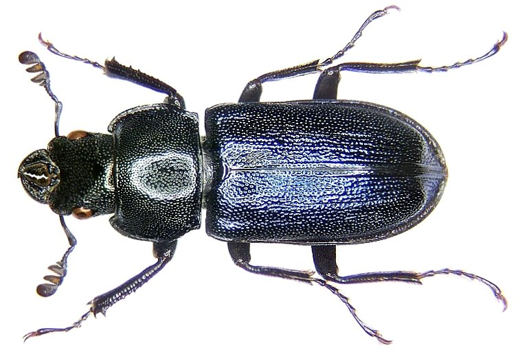 Family: Lucanidae Size: 3-9-13 mm Origin: Europe Ecology: Development in Hardwood Location: Germany, Bavaria, Upper Franconia, Kulmbach leg.det. U.Schmidt, 1973 Photo: U.Schmidt, 2006